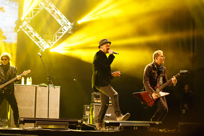 The three official members of Brazilian band Titãs performing live at a stage with golden lights Português do Brasil: Os três membros oficiais da banda brasileira Titãs tocando ao vivo num palco com luzes douradas